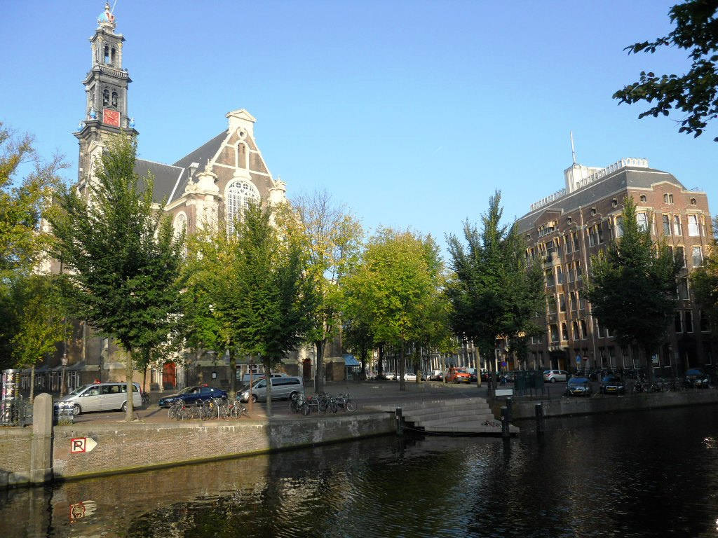 homomonument